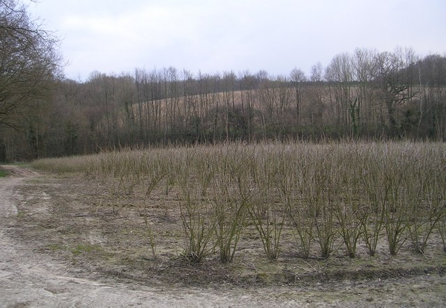 Blackcurrant plants A field of Blackcurrant plants growing on the outskirts of Bedgebury Forest [just visible on the horizon]